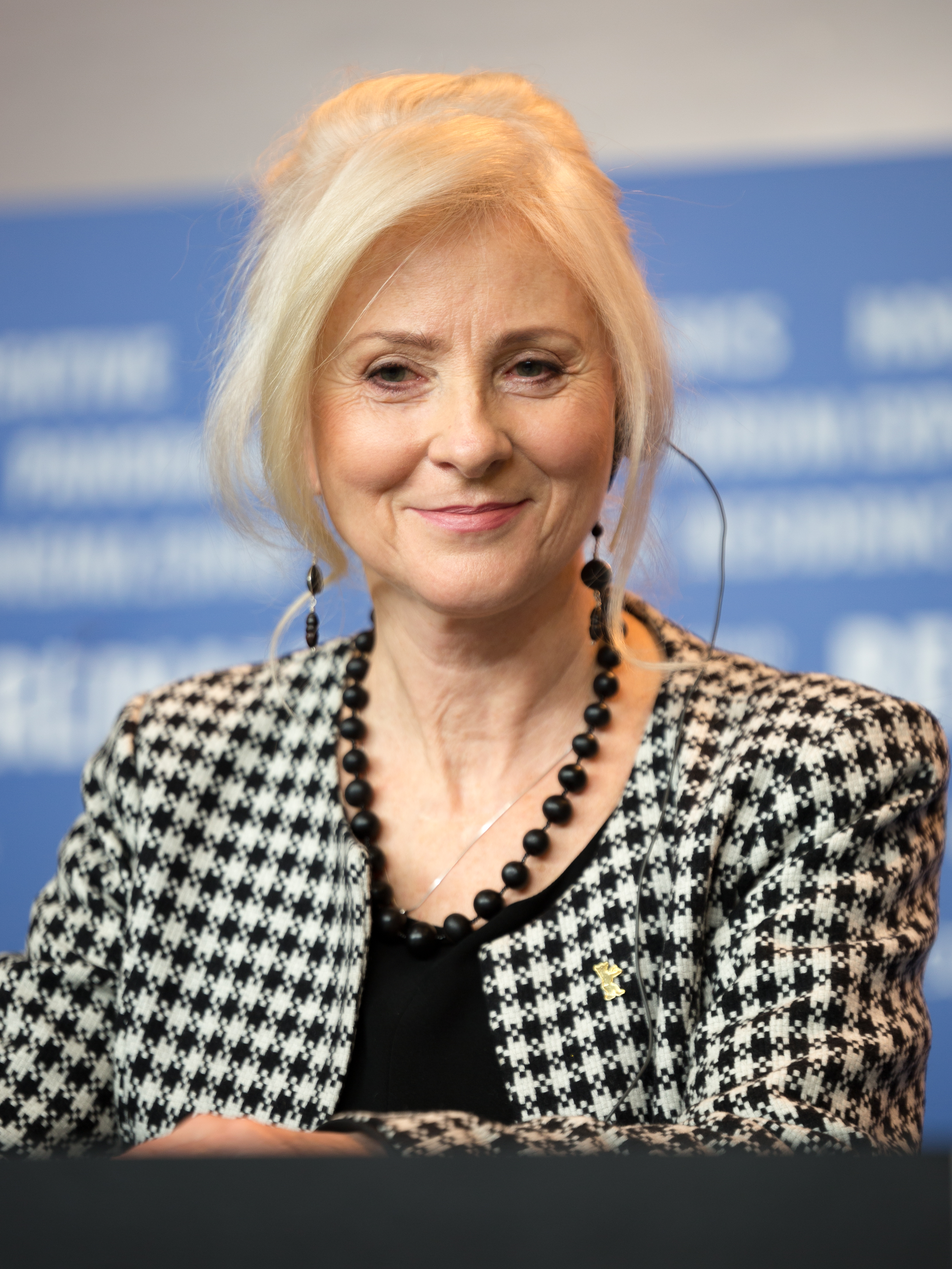 ActressAgnieszka Mandat at the presentation of the polish movie Spoor at the Berlinale 2017